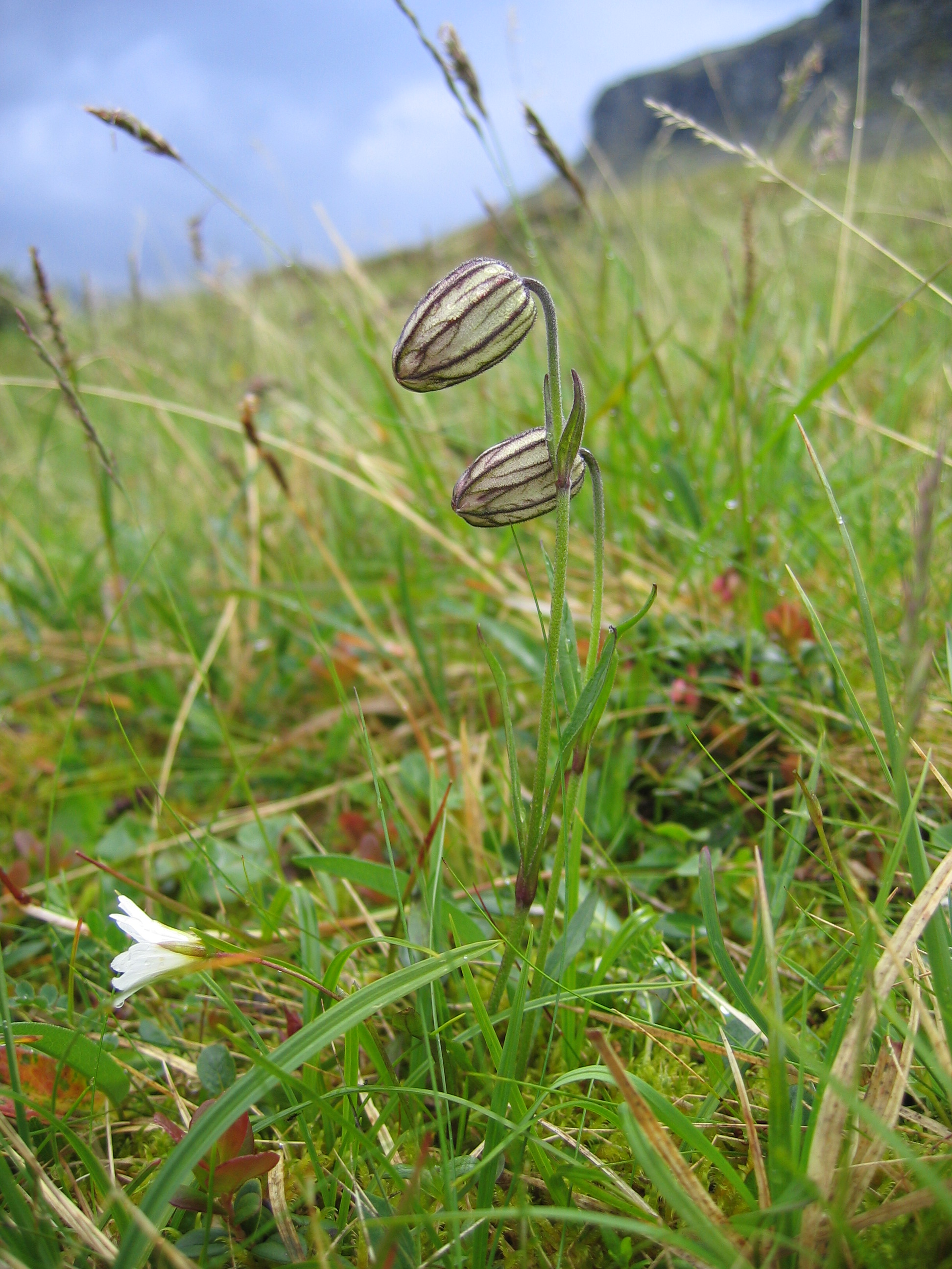 Silene wahlbergella